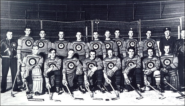 Official team photo of the Ottawa RCAF Flyers who won the gold medal in ice hockey for Canada at the 1948 Winter Olympics in St. Moritz